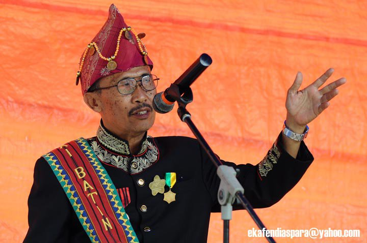 Nyerupa sai